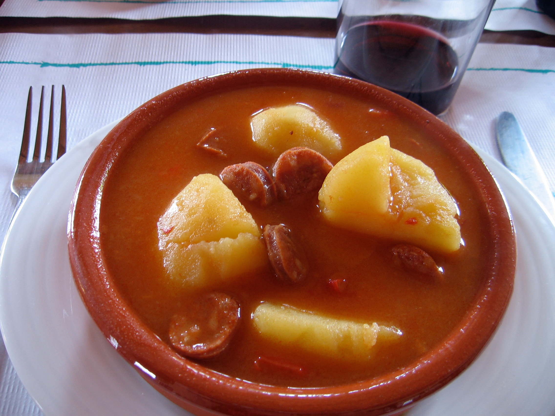 Patatas a la riojana (Chorizo with potatoes), a traditional regional dish served at Ciriñuela, La Rioja, Spain.